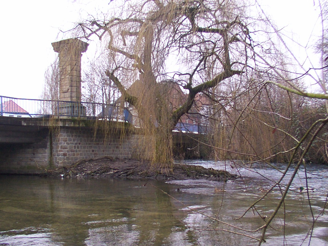 Paderborn, Germany: mouth of the Pader River (foreground) into the Lippe River (background) in Schloß Neuhaus.